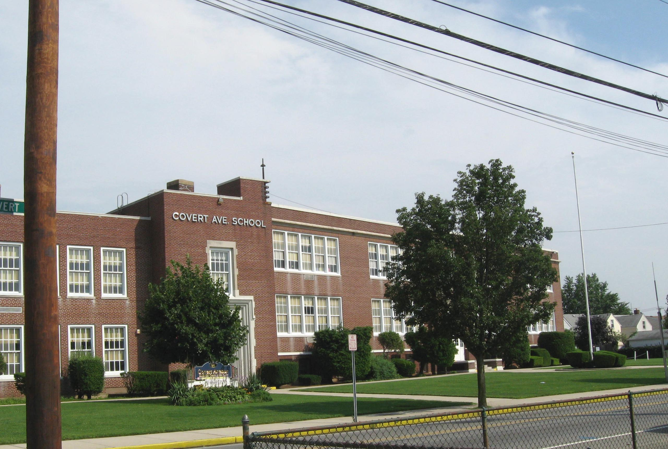 Looking east across Covert Avenue at Covert Avenue School of Elmont, New York on a clearing early afternoon